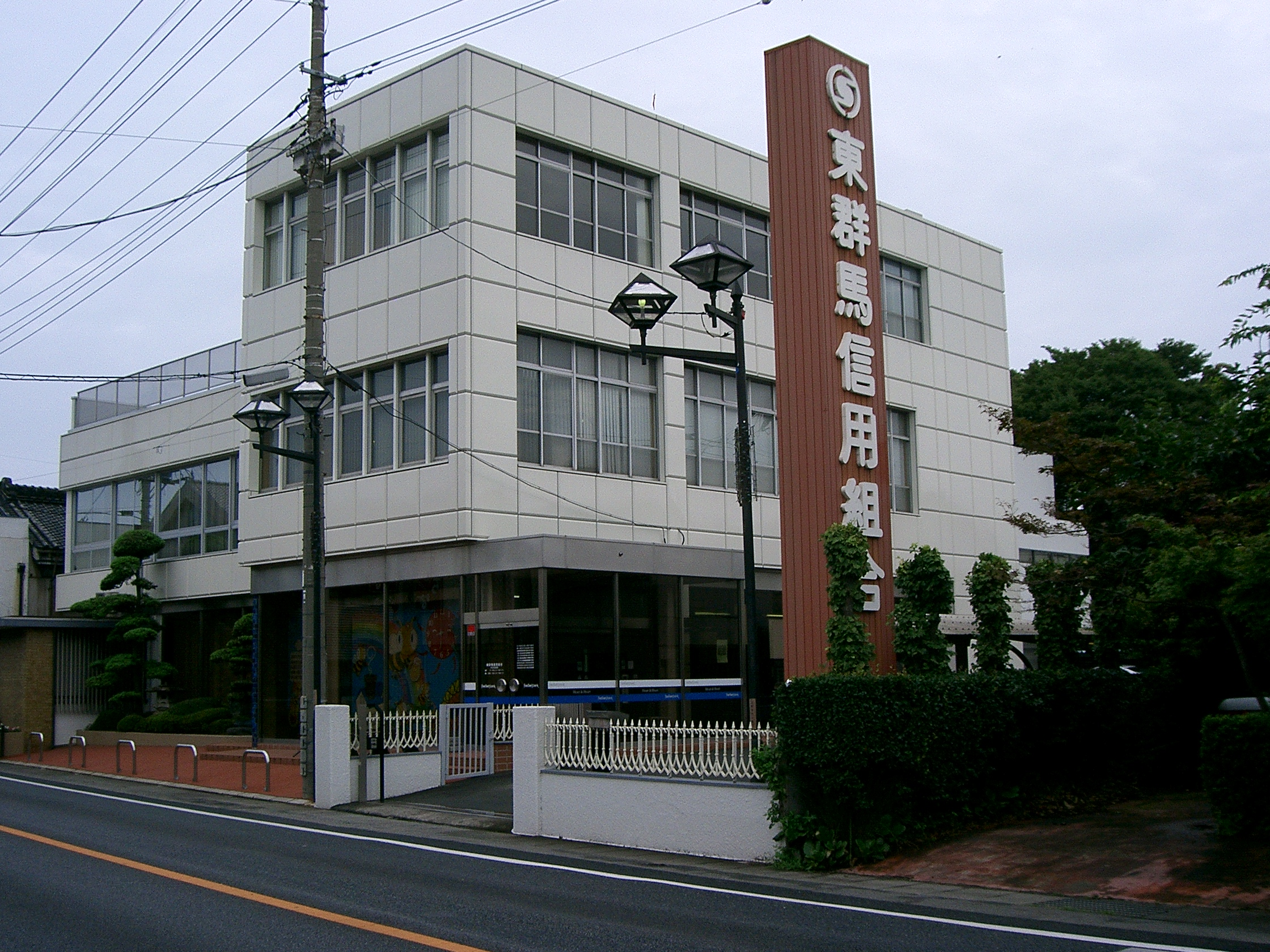 Head office of Higashi Gunma Credit Union